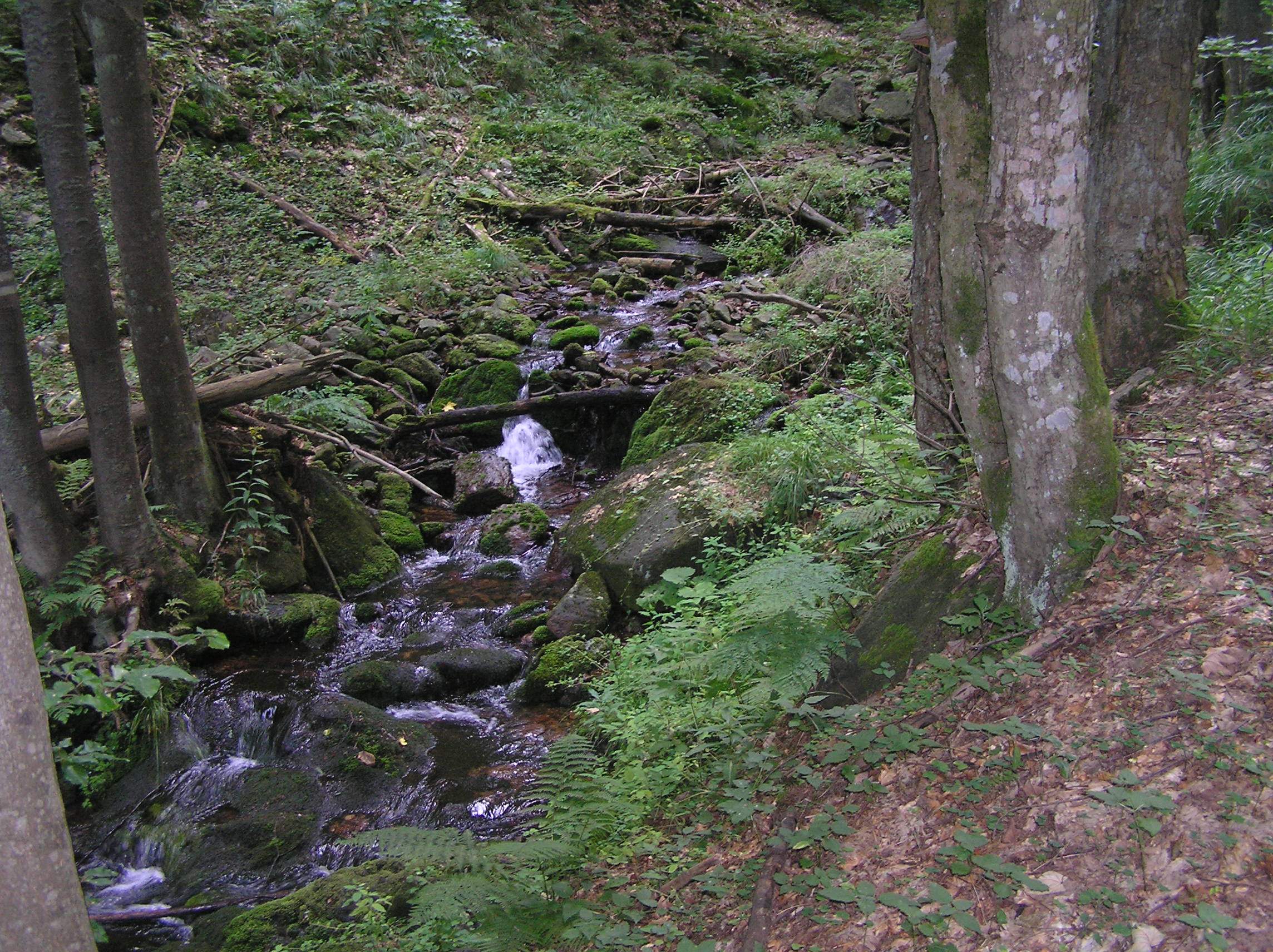 Kopřivák is the creek in the Králický Sněžník Mountains, Czech Republic